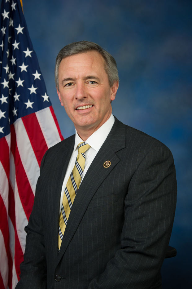 Official congressional photo of Rep John Katko